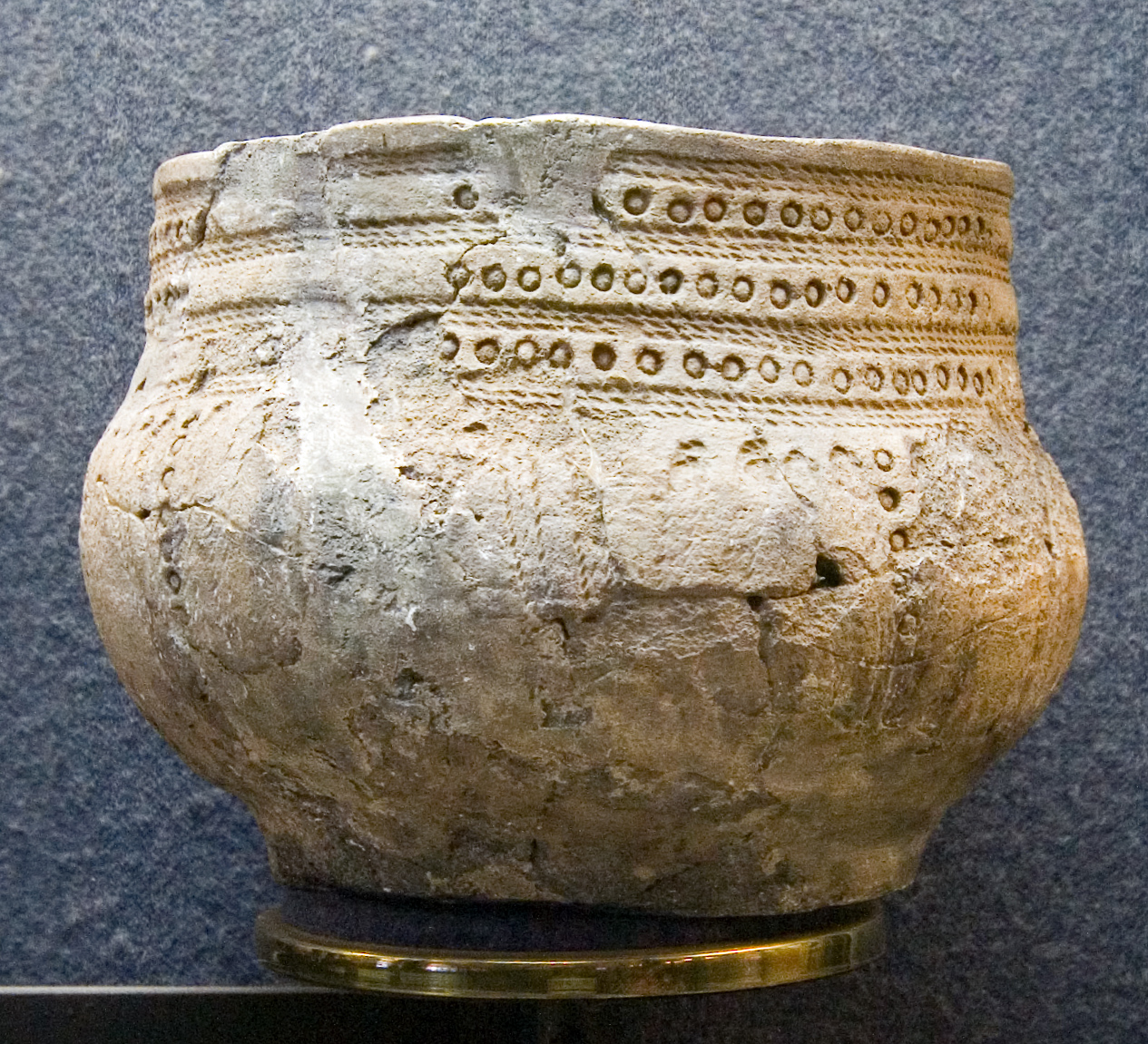 Objects found during excavations